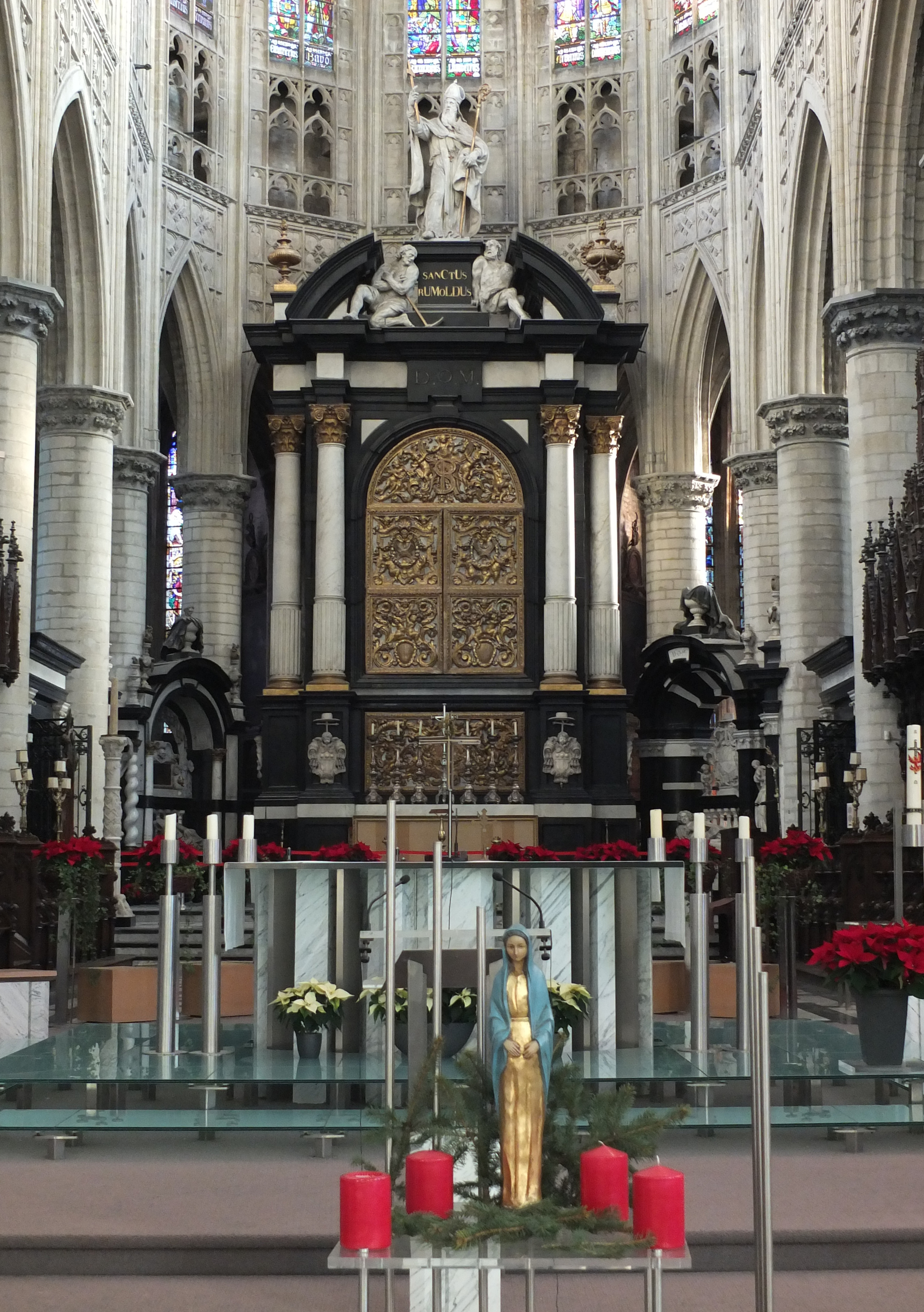 The choir of St-Rumbold's Cathedral in Mechelen (Belgium). The main altar was designed by Willem Hesius s.j. and made by Lucas Faydherbe, with the assistance of Mattheus van Beveren. The statue on top is Saint Rumbold by Lucas Faydherbe. The gilded arcs and doors were carved by Artus Quellin de Jonge. The statues along the sides in the aisle are apostles made by Lucas Faydherbe.